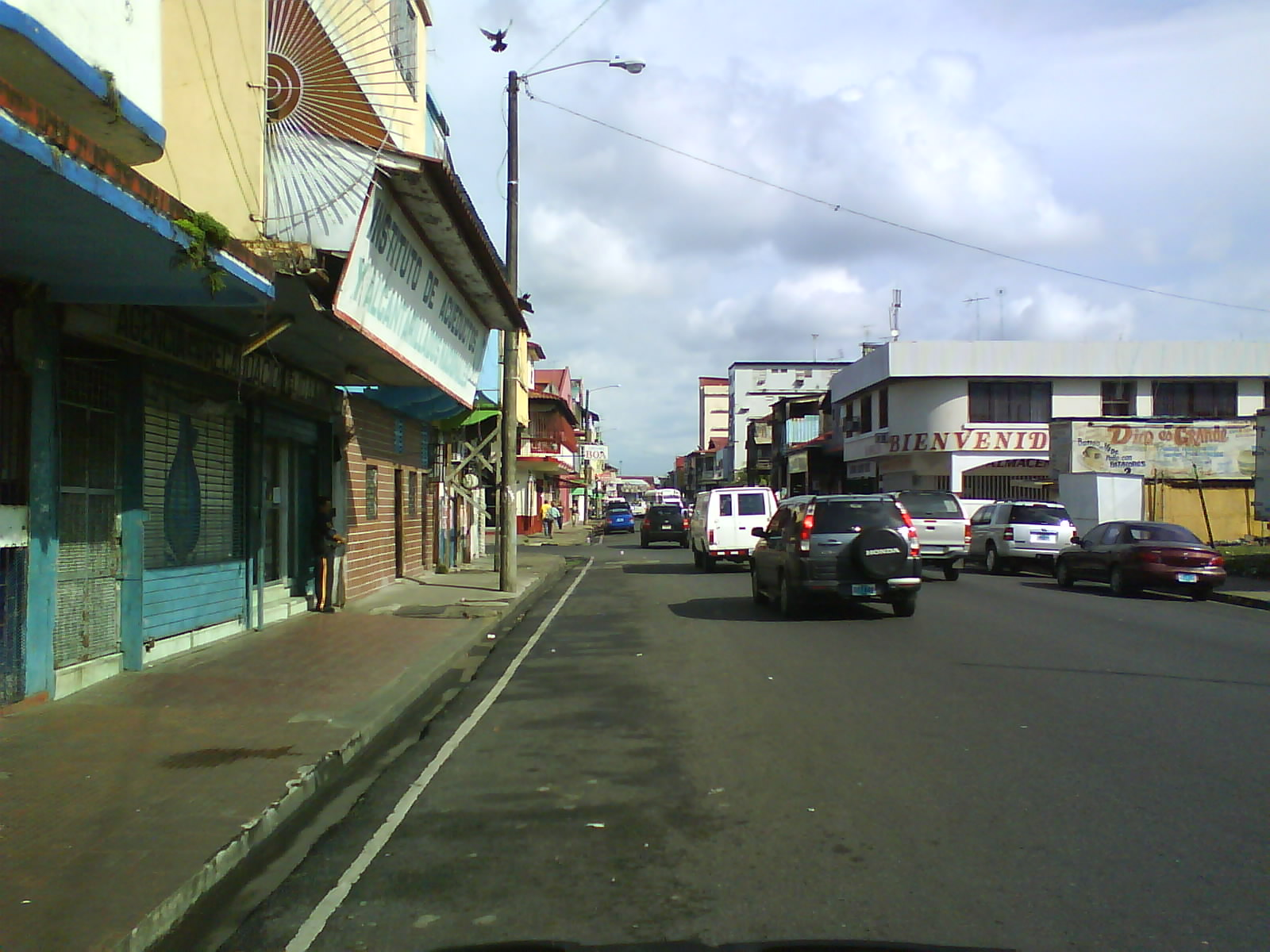 Colon City, Panama.